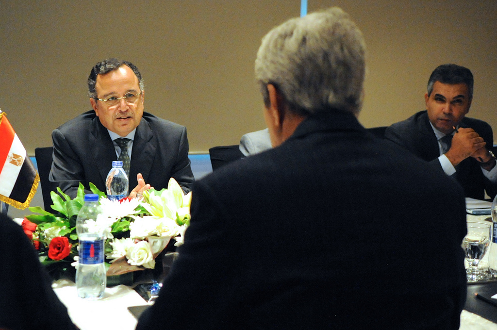 Egyptian Foreign Minister Nabil Fahmy speaks with U.S. Secretary of State John Kerry at the outset of a meeting in Cairo, Egypt, on November 3, 2013.